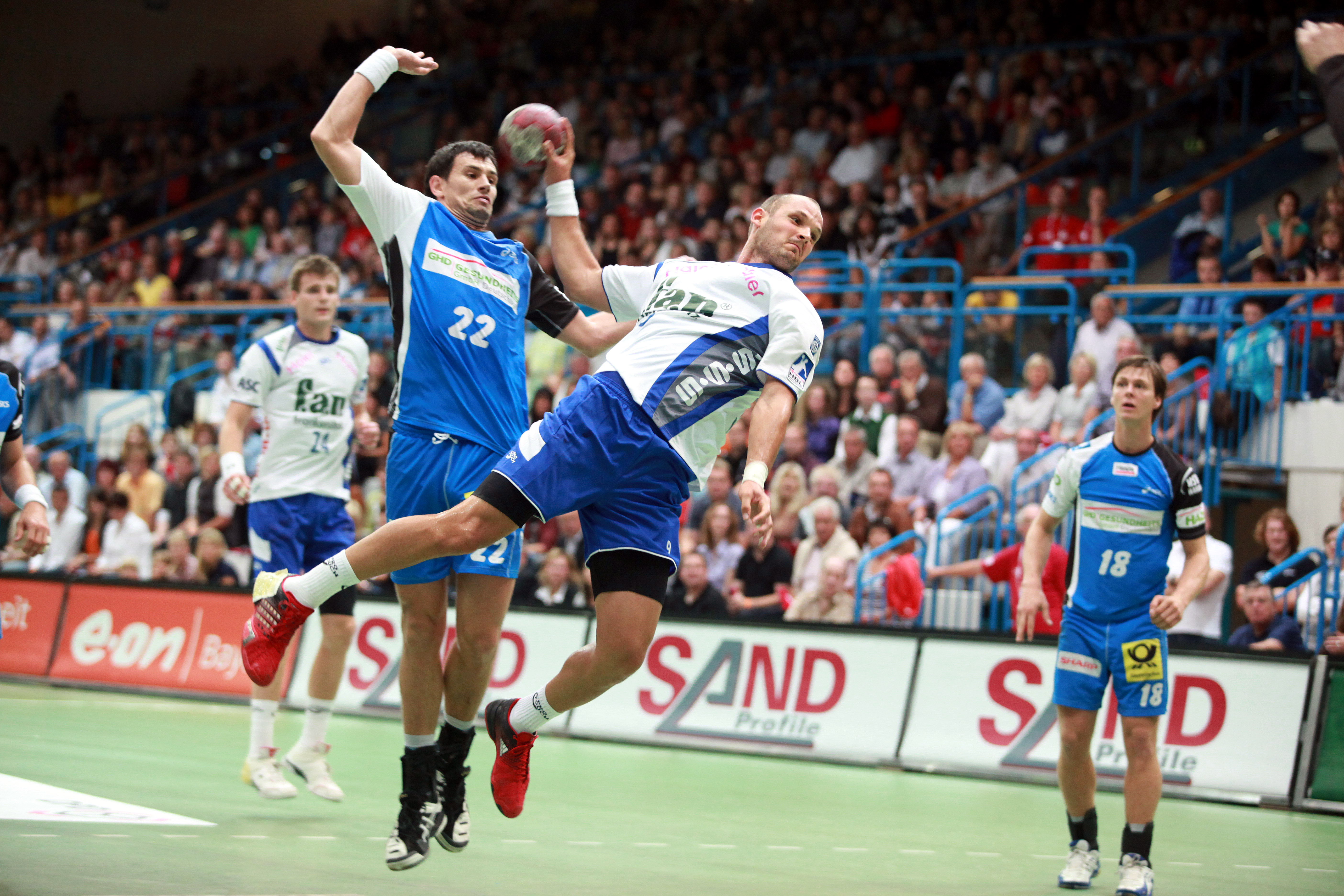 Jens Tiedtke, German handball player from TV Großwallstadt, on September 6th, 2009 in the f.a.n. frankenstolz arena of Aschaffenburg, during the bundesliga match TV Großwallstadt vers. HSV Hamburg (24:27).